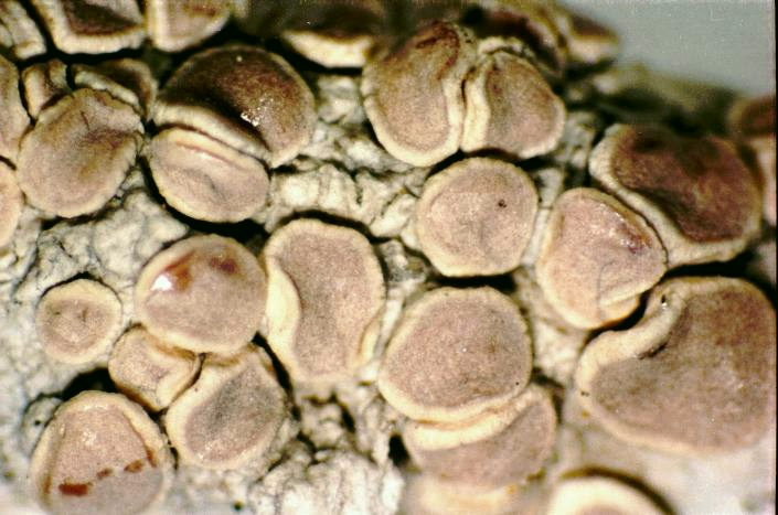 Lecanora caesiorubella Ach., 1810 Photograph of a herbarium specimen taken through a dissecting microscope (x30), showing apothecia up to 1.7 mm in diameter. (Chemical spot tests on the thallus: K+ yellow, C-, PD-; spot tests on the amphithecial medulla: PD+ red, K+ red; spot test on the apothecial disk: C-) This specimen of Lecanora caesiorubella was growing on a dead twig of Kalmia latifolia L. at the Northland Loop Interpretive Trail at the Dolly Sods Wilderness Area of the Monongahela National Forest, Tucker County, West Virginia, USA. Collected and identified by E.C. Uebel (No. U-50, 19 May 2001).